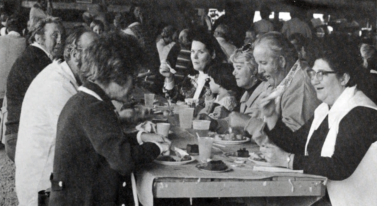 Attendees of the Holyoke Irish Centennial Anniversary Committee's Irish breakfast banquet